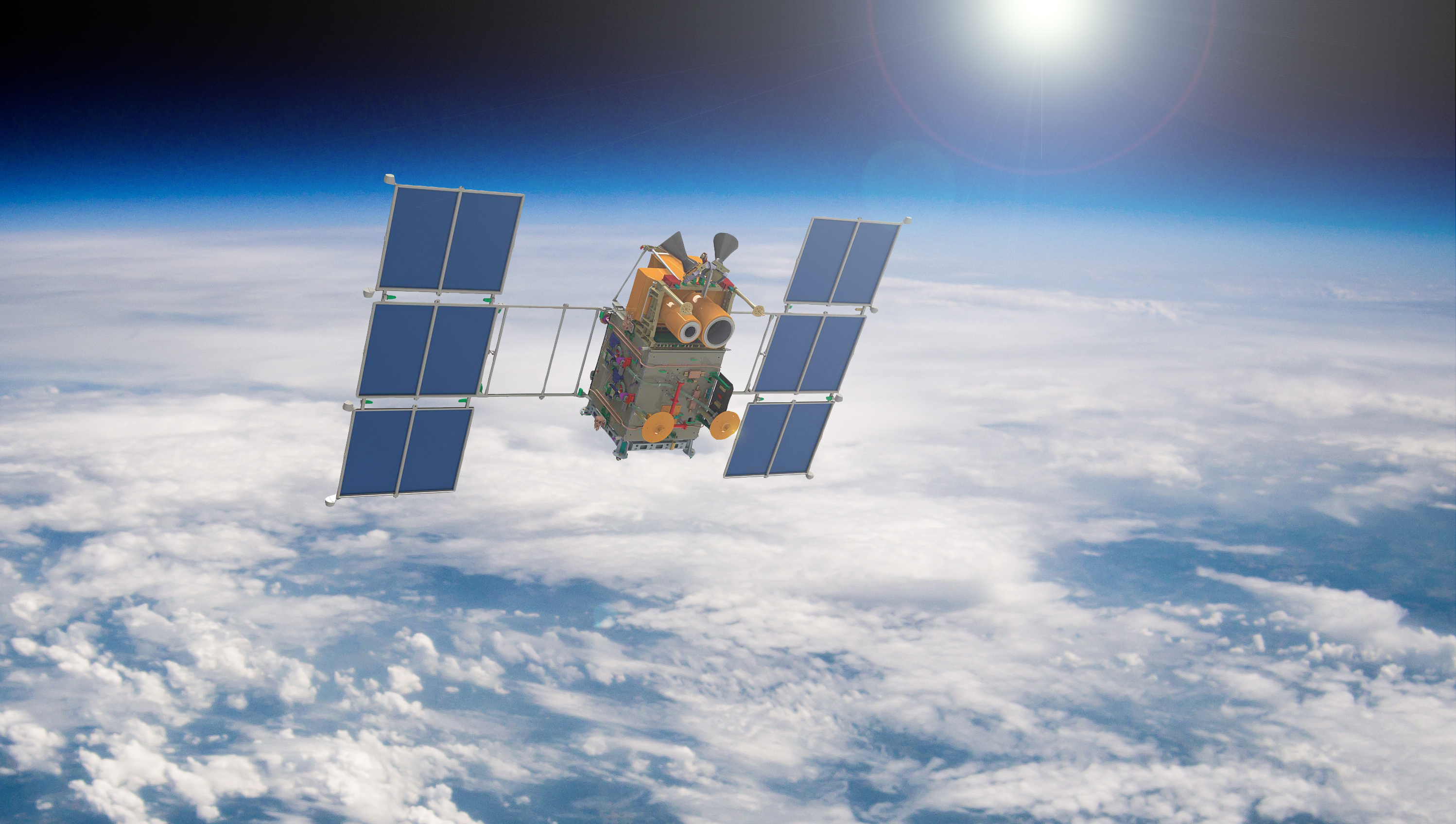 Artistic illustration of Russian satellite Canopus-B on terrestrial orbit.